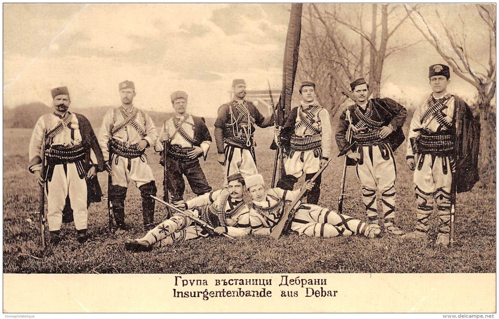 Cheta from Debar region - IMARO or SMAC